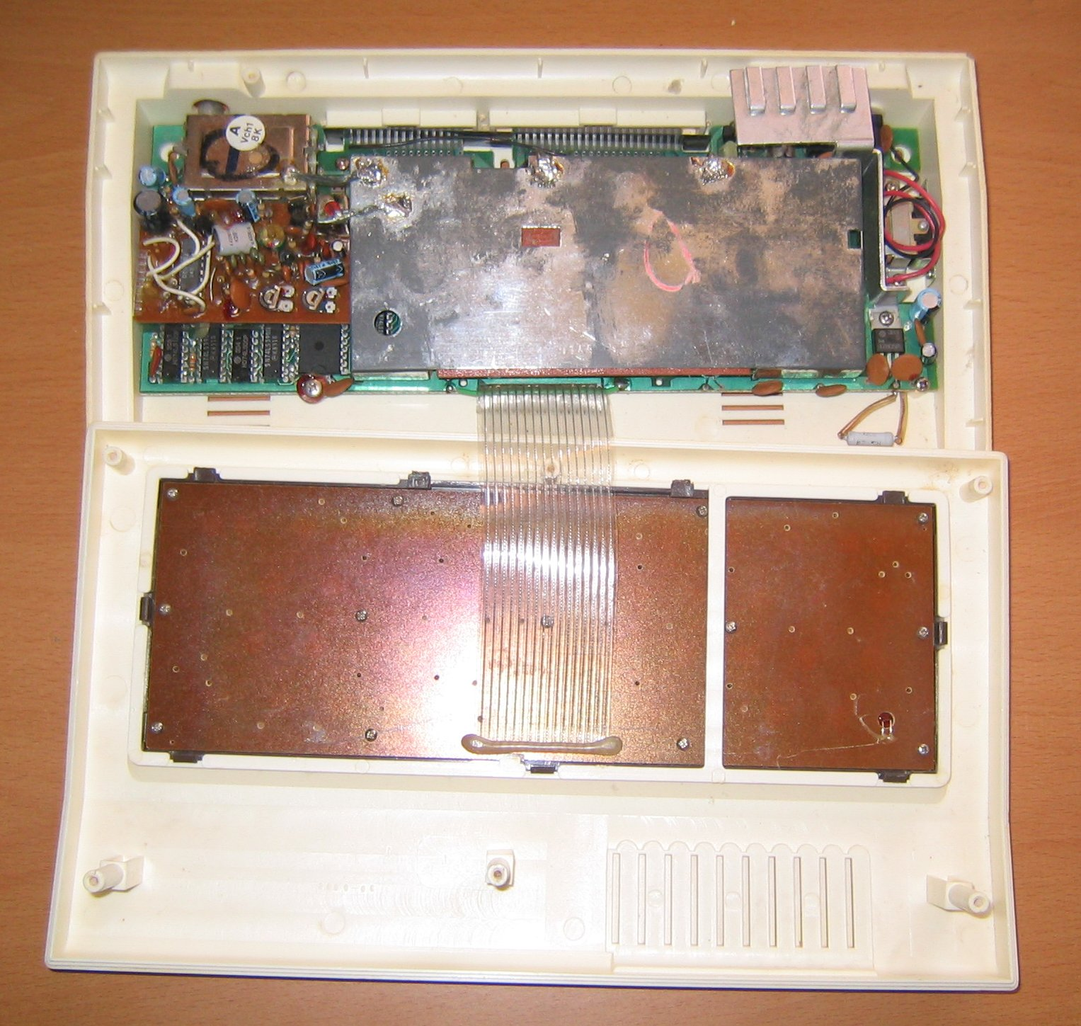 A VZ-200 computer, as sold by Dick Smith in Australia. The computer has been opened in this picture to show what is inside.